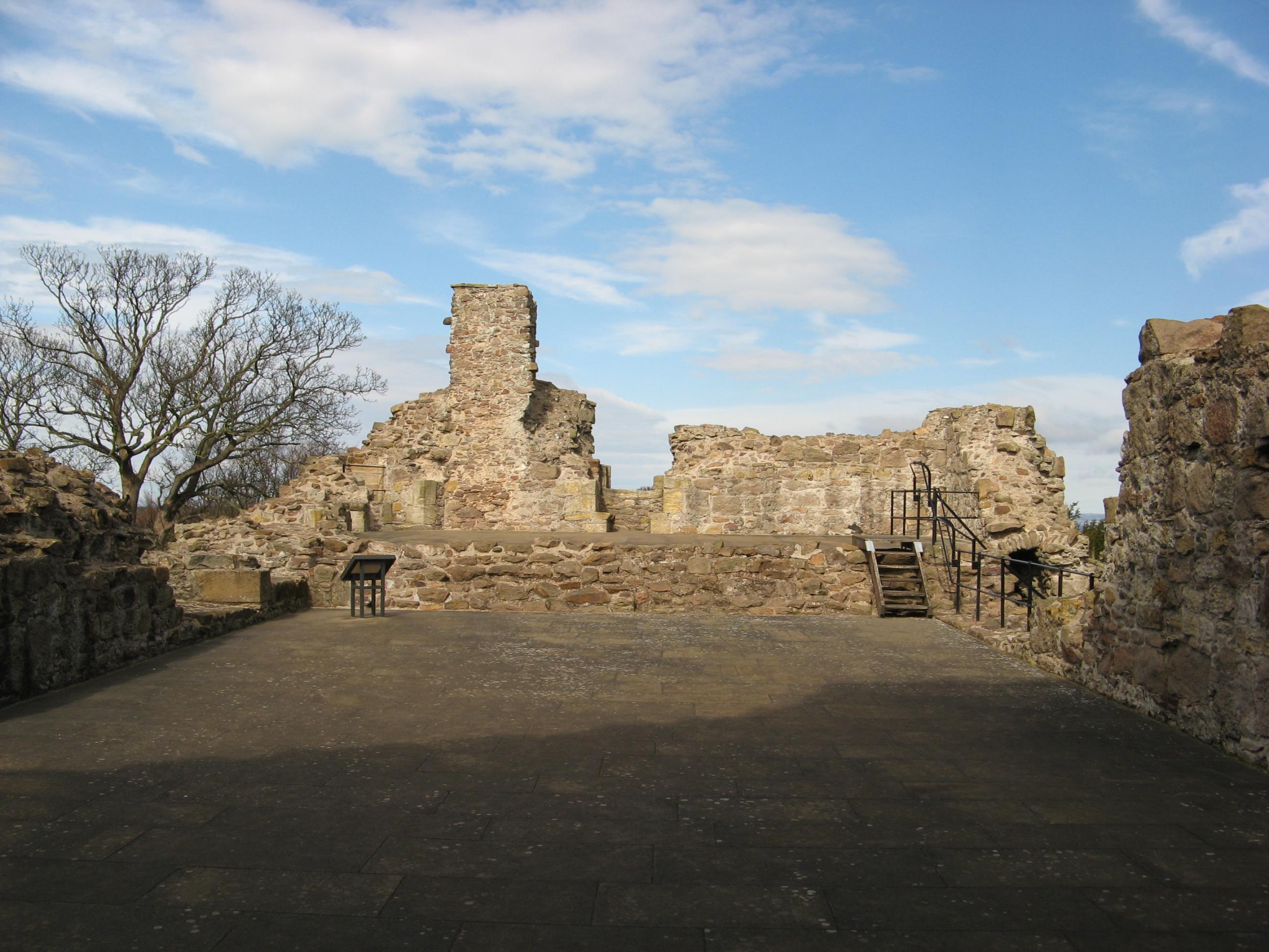 Dirleton Castle, East Lothian, Scotland. Remains of the great hall, within the 14th century east range.